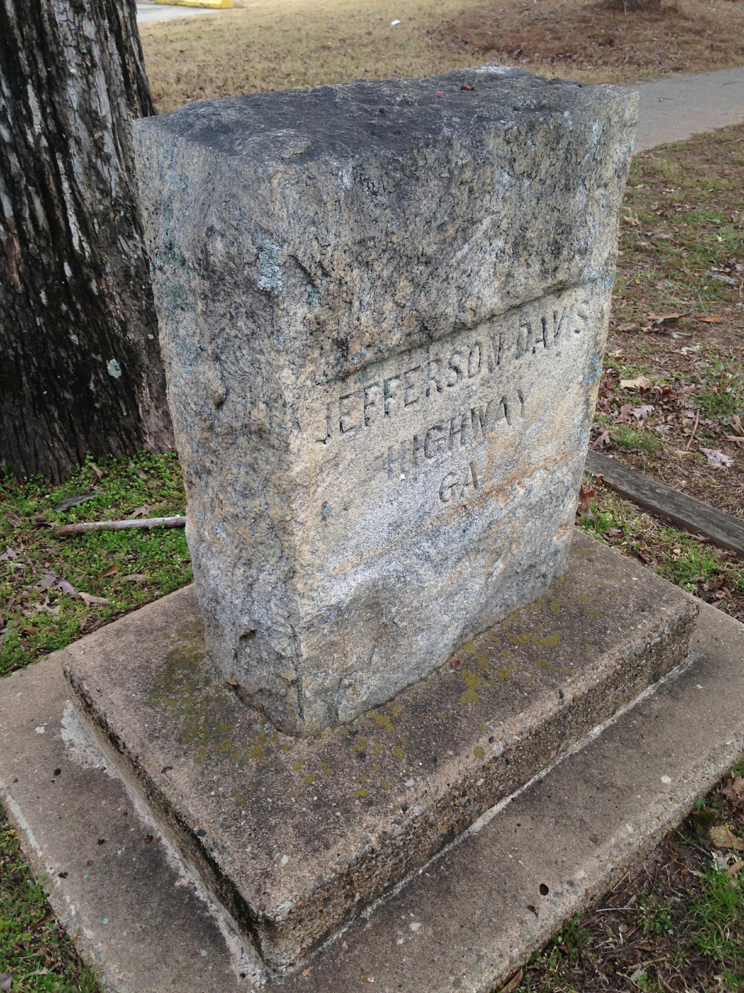 Marker for the Jefferson Davis Highway on Main Street, Madison, Georgia, USA.